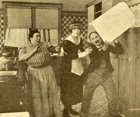 Still from the American comedy short film No Mother to Guide Him (1919) with Fanny Kelly (1875 – 1925), Isabelle Keith, and Ben Turpin, on page 1781 of the June 21, 1919 Moving Picture World.